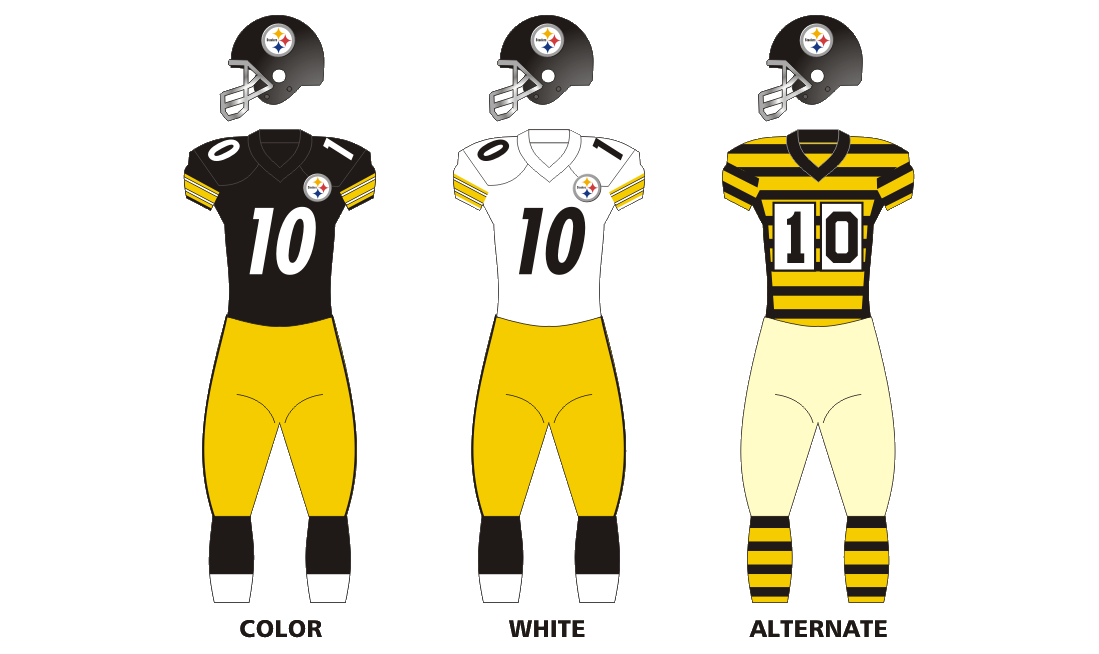 The Pittsburgh Steelers uniforms wore during the 2012-13 season, including the throwback jersey honoring the 1934 uniform. All of them were rendered using Corel Draw!.